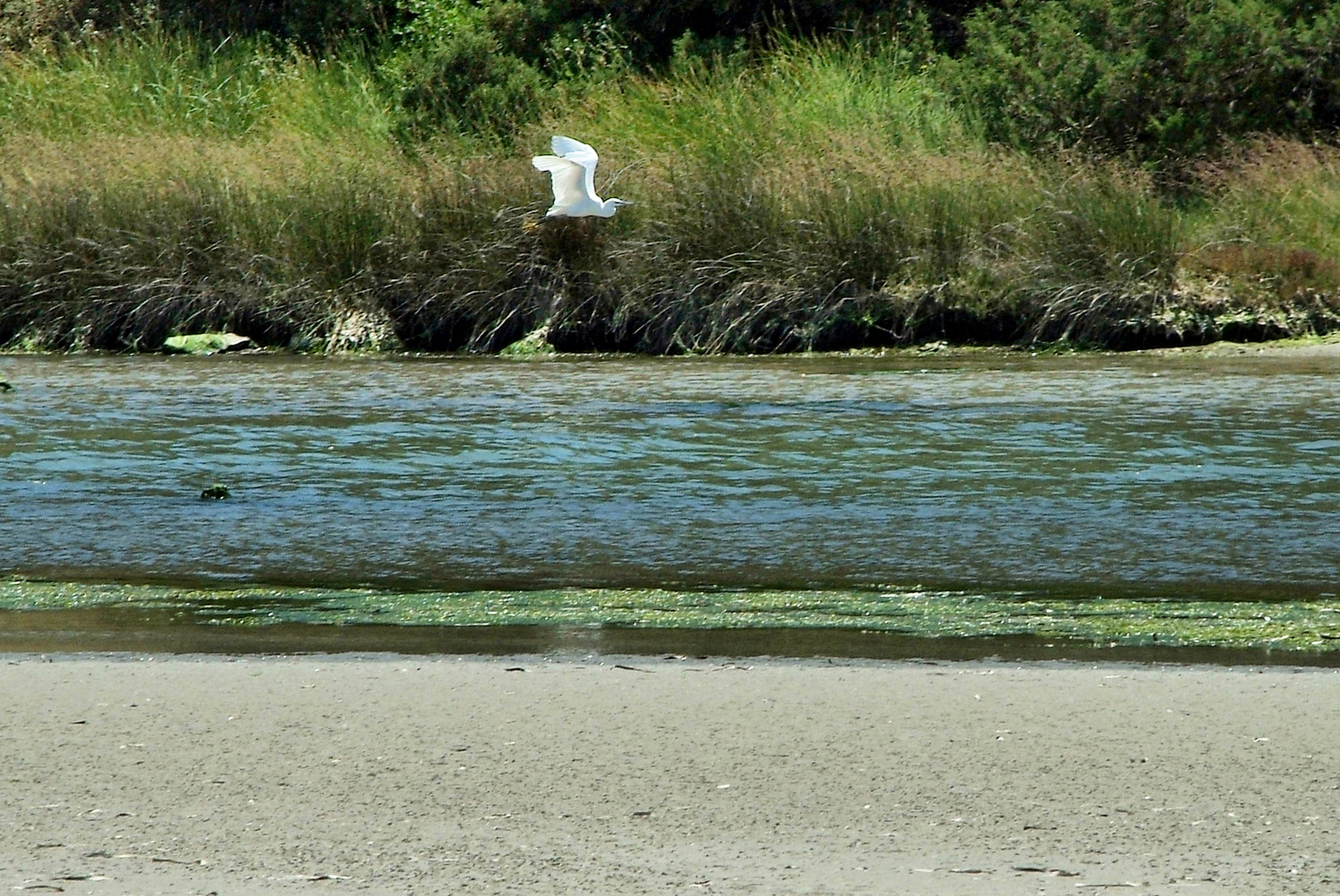 This is a photography of Natura 2000 protected area with ID GR3000004